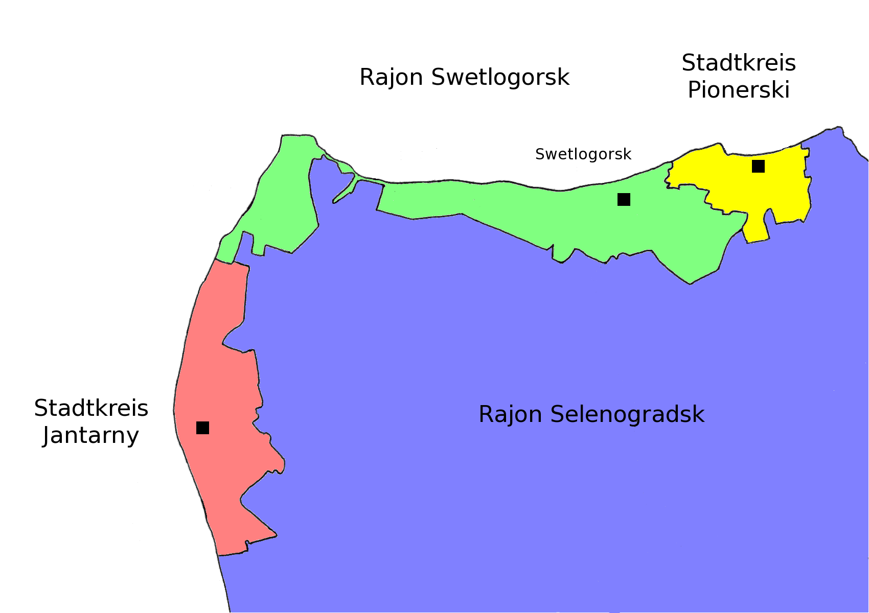 Adminitrativ-territorial division of the north-western Samland (2018)